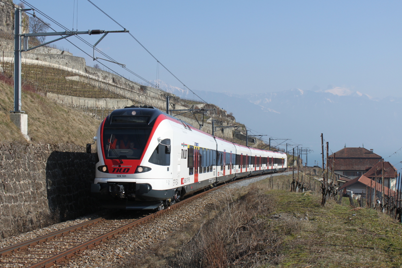 SBB CFF FFS RABe 524 101 undergoing trials on the Vevey-Chexbres railway (VCh) at Les Faverges, Saint-Saphorin (Lavaux).